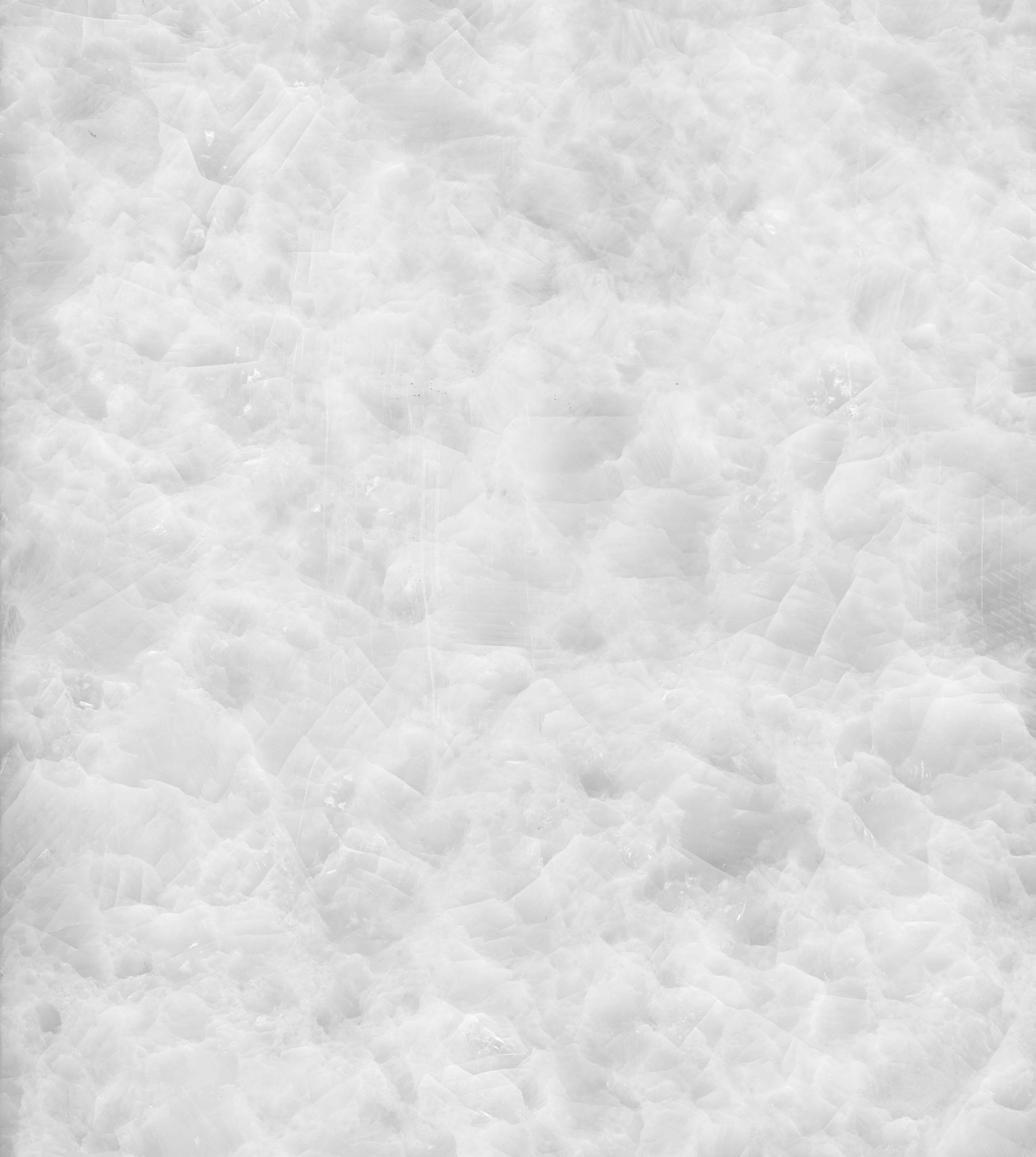 Naxos Marble, Naxos, Greece